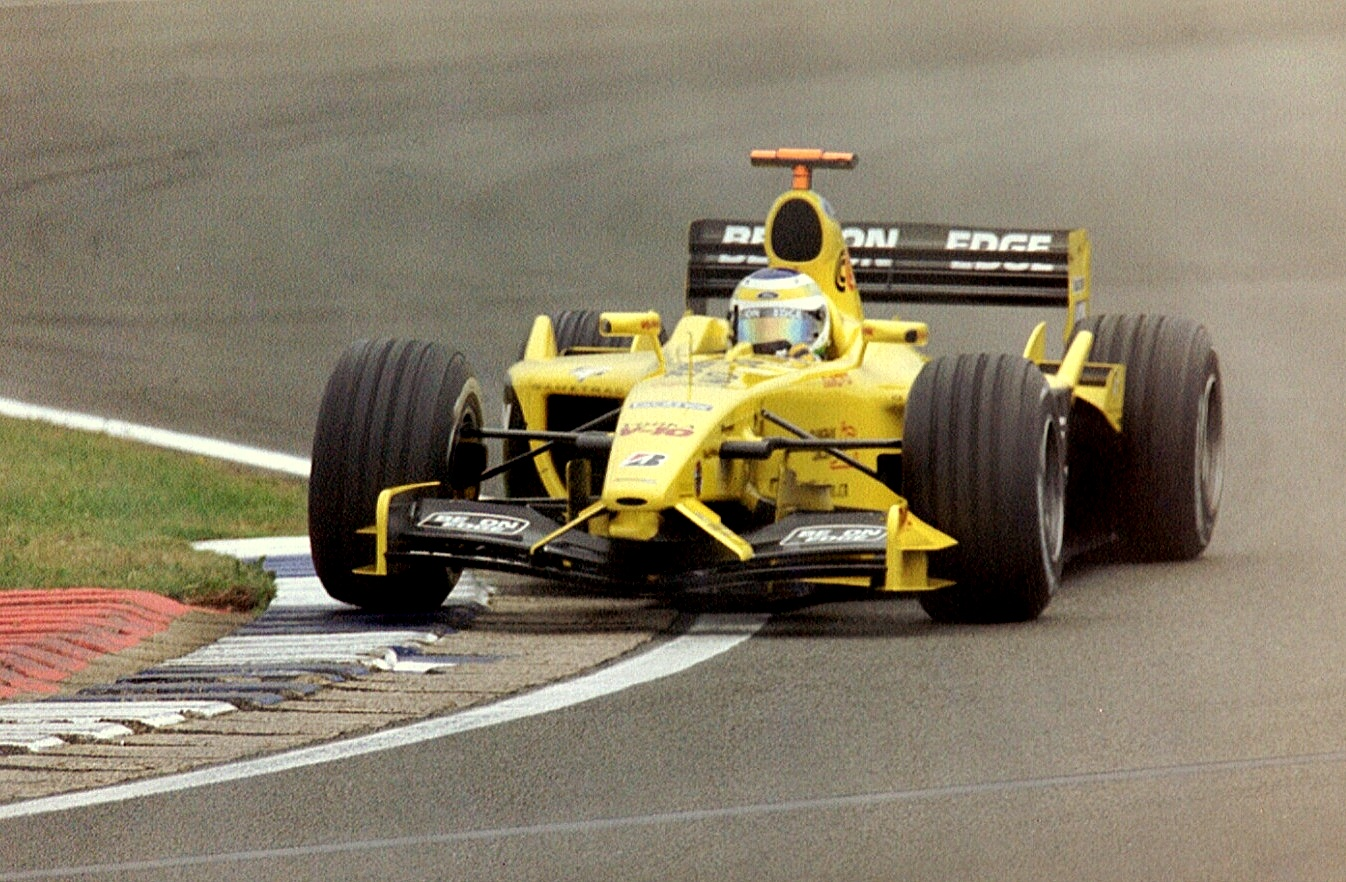 Giancarlo Fisichella, driving his Jordan Ford at the 2003 British Grand Prix.